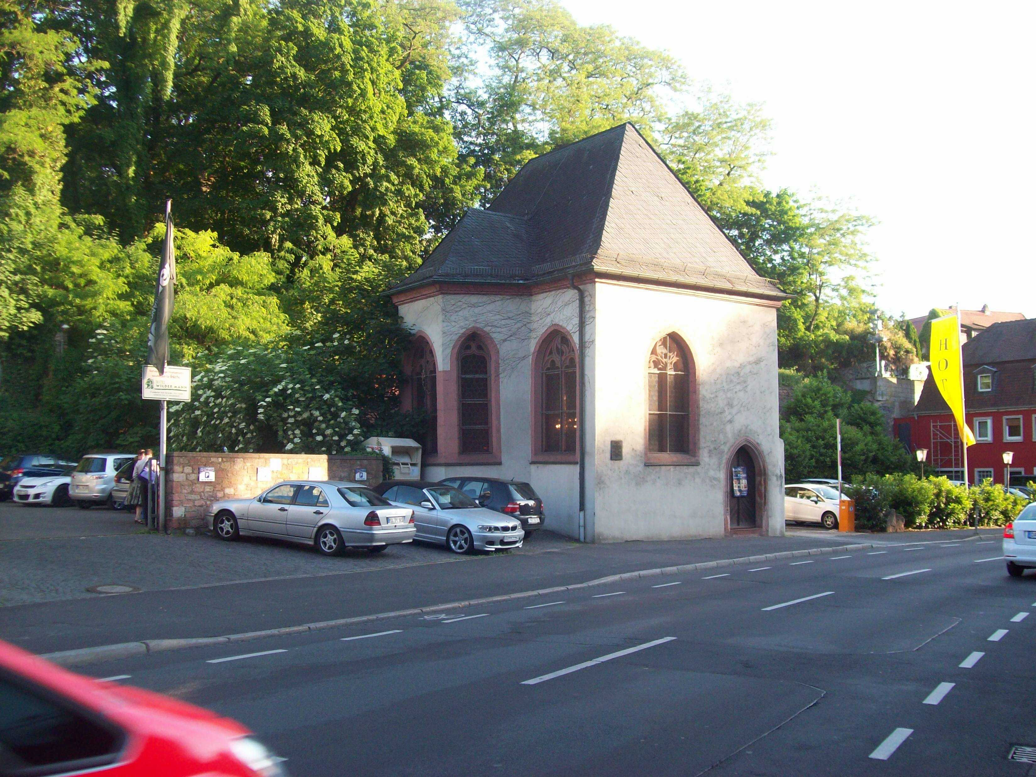 Katharinenspital Griechisch-orthodoxe Kirche St.Katharina